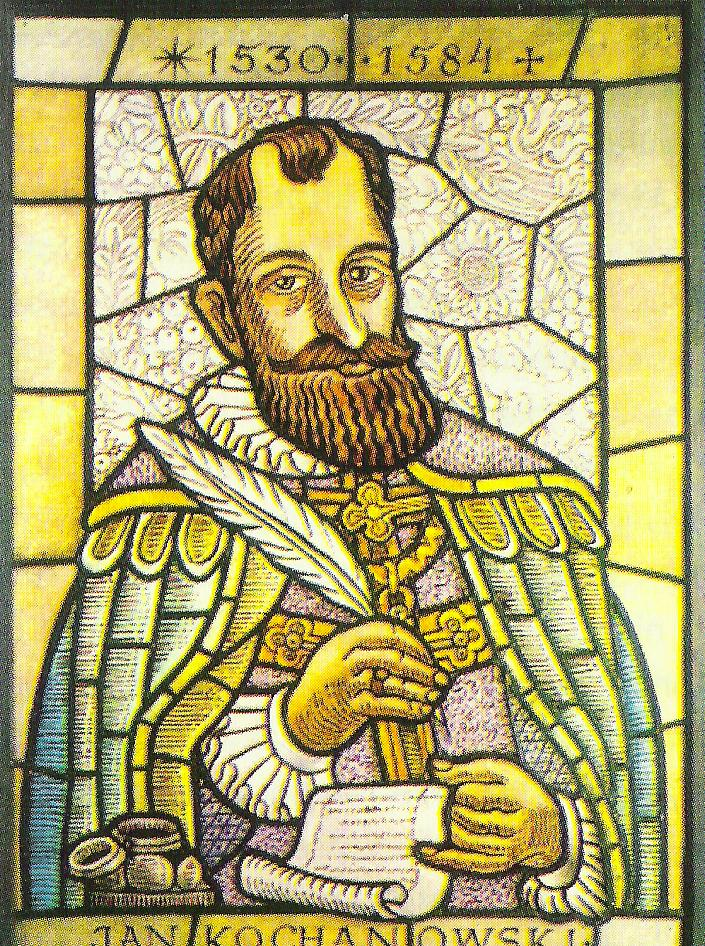 Jan Kochanowski (1530-1584), great Polish poet. Stained glass from the Collegium Novum of the University of Cracow